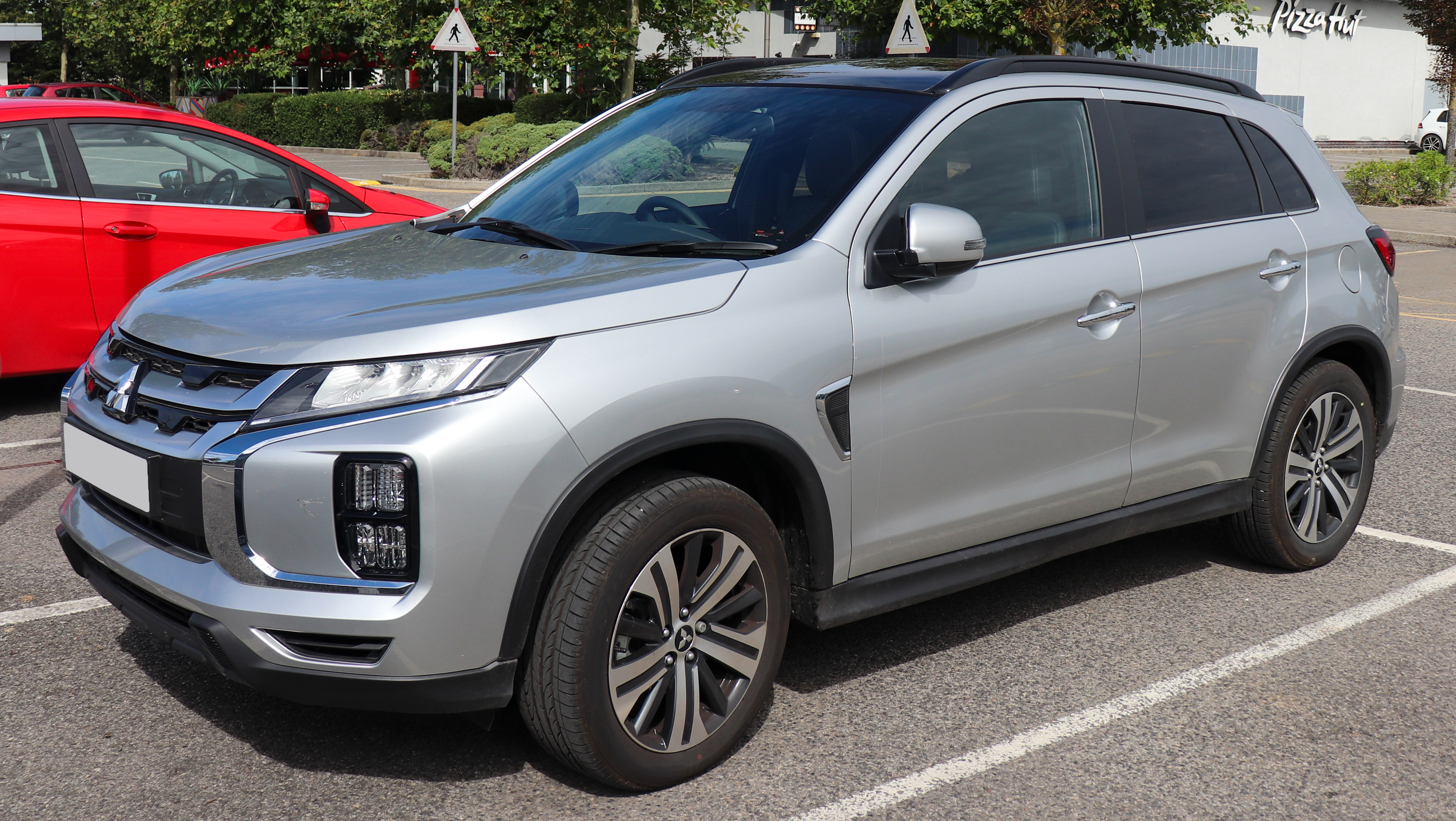 2020 Mitsubishi ASX Exceed 2.0 Taken in Stratford-upon-Avon